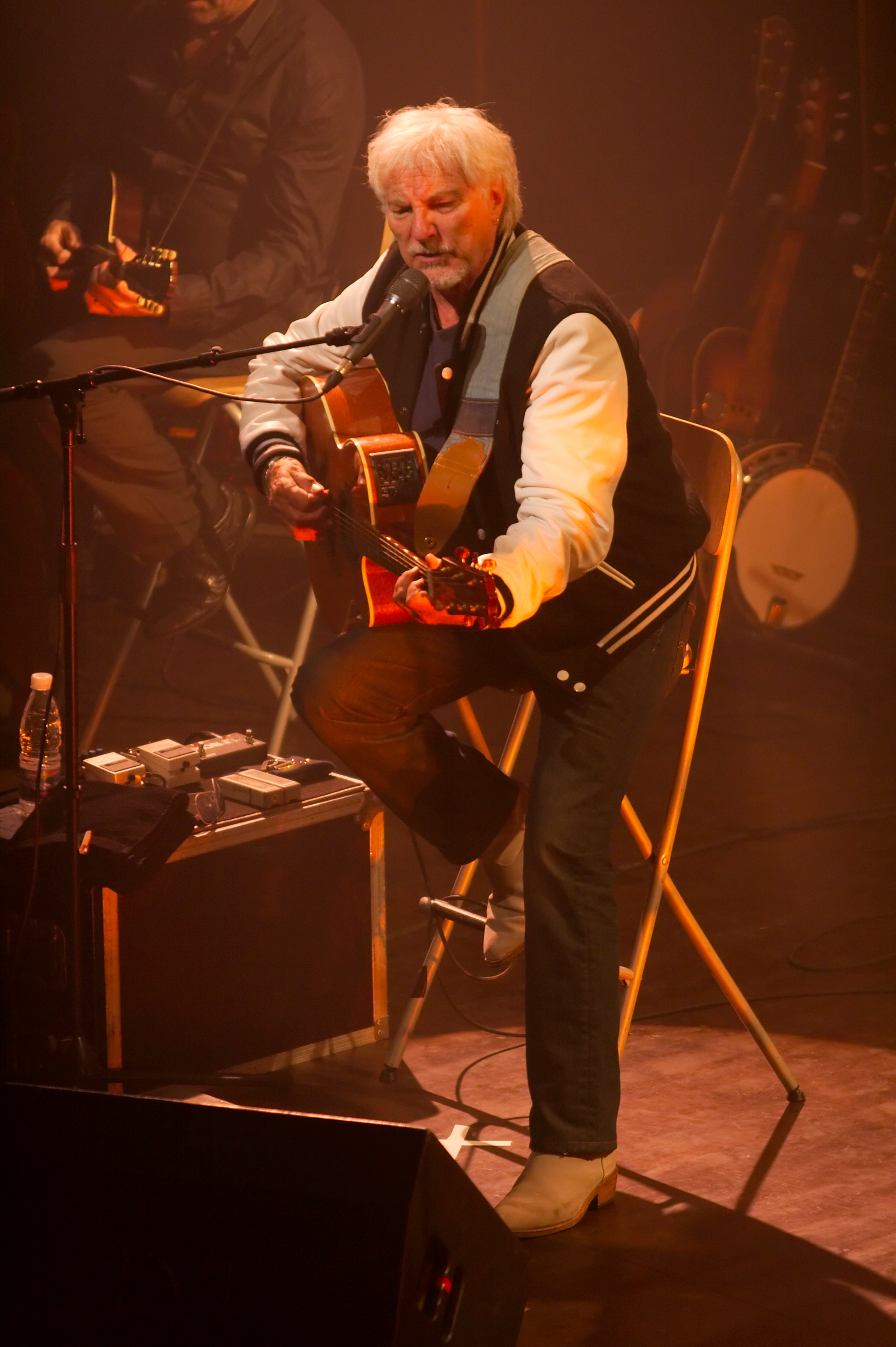 Hugues Aufray live at Aix-en-Provence (France) for the French song festival 2009.